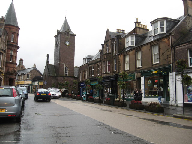 Heading east on Crieff's High Street